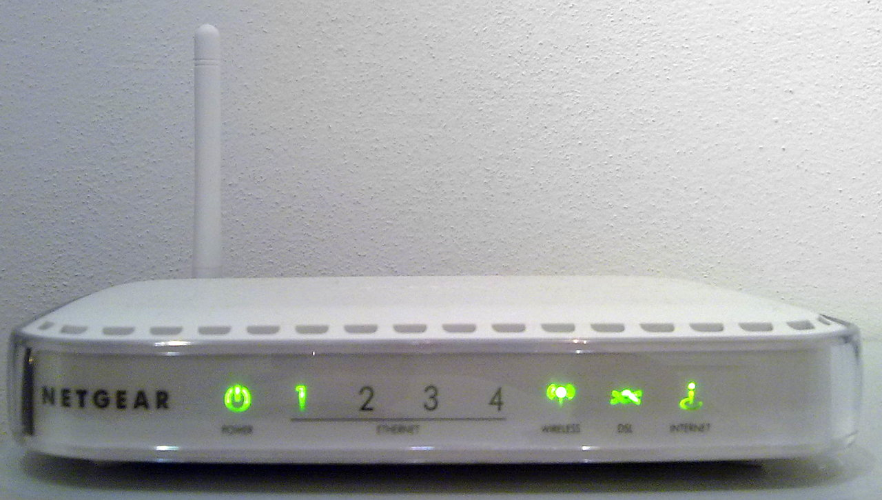 The front of a Netgear DG834v4